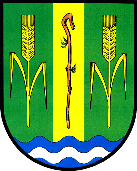 Municipal coat of arms of Velenice village, Nymburk District, Czech Republic.